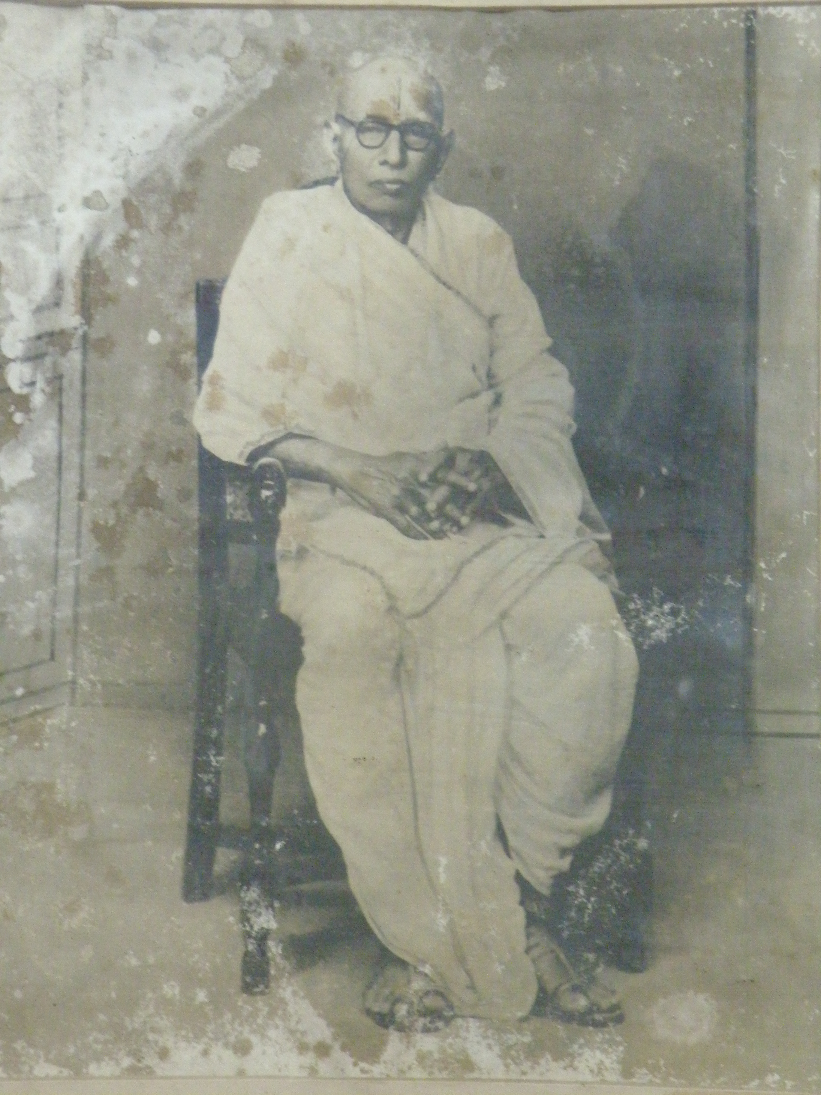 Kundalam Rangachariar (1893–1976) was a Sanskrit scholar. He lived in Srirangam and was involved in the Vedaparayanam and the daily puja at the Sri Ranganathaswamy Temple. He was known for his knowledge of Vedanta and was a regular speaker on the subject. He was actively associated with the growth of Sri Annaswamy Iyengar Vidwat Sadhas, Mannargudi. He was a regular invitee and speaker in the summer school lectures at Tirupati (TTD). Kundalam Rangachariar was well known to Kanchi Sri Chandrasekharendra Saraswati Swamigal (Mahaswamigal). Besides being a Sanskrit scholar, he was an astrologer.